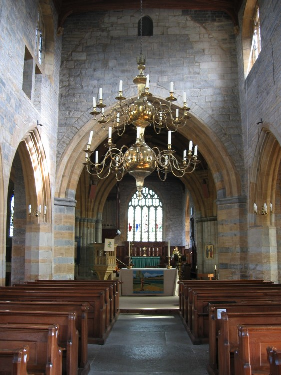 Inside the nave of the parish church of SS Peter and Paul, North Curry, Somerset, looking east through the crossing arches to the chancel